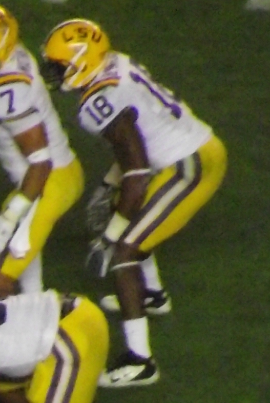 Alabama Crimson Tide line up on offense against the LSU Tigers at Bryant–Denny Stadium in Tuscaloosa, Alabama.